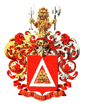 Coat of arms of the family Mejngard